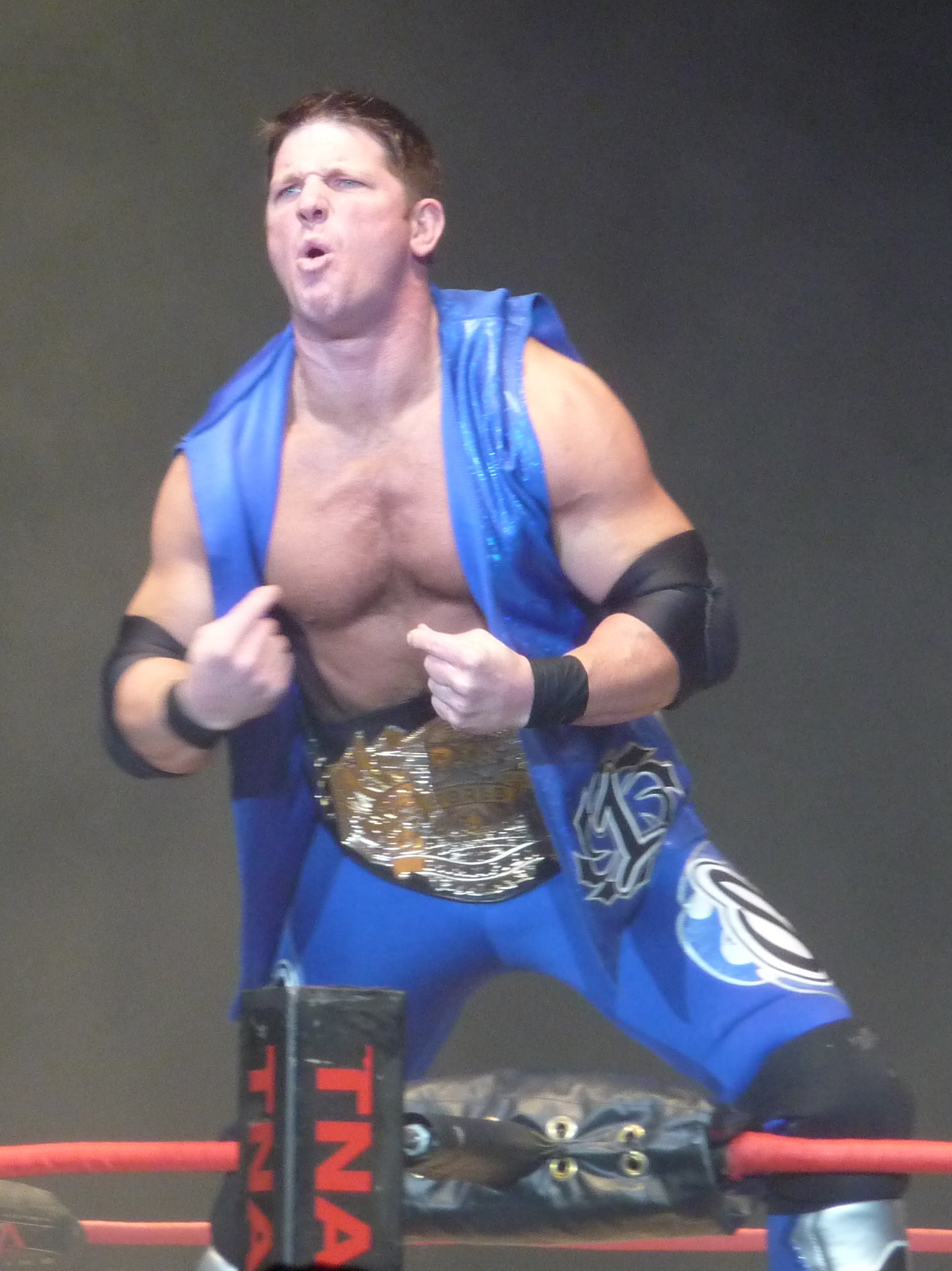 Professional wrestler AJ Styles posing on the turnbuckles with his TNA World Heavyweight Championship prior to a match against Kurt Angle at Wembley Arena on January 30, 2010.